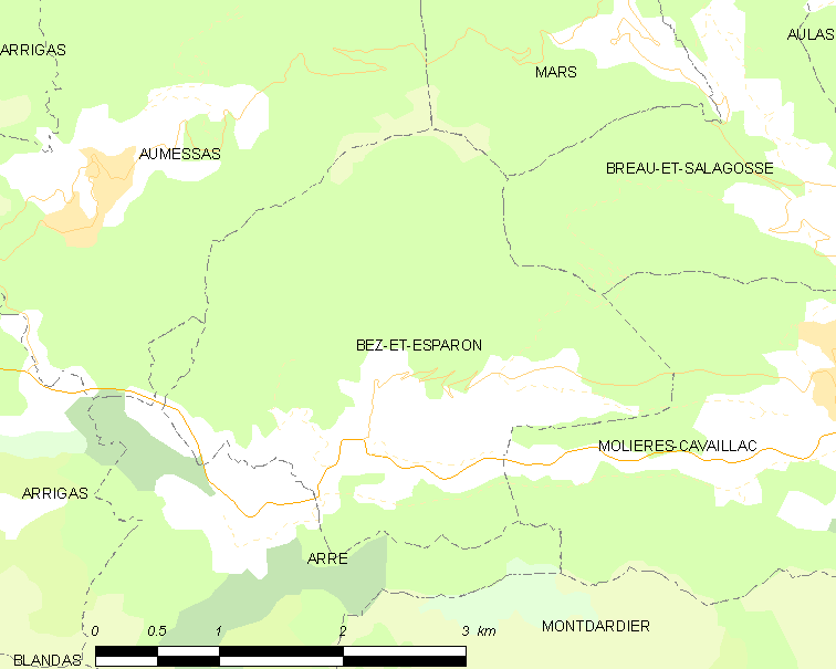 Map commune FR insee code 30038.png - Bez-et-Esparon